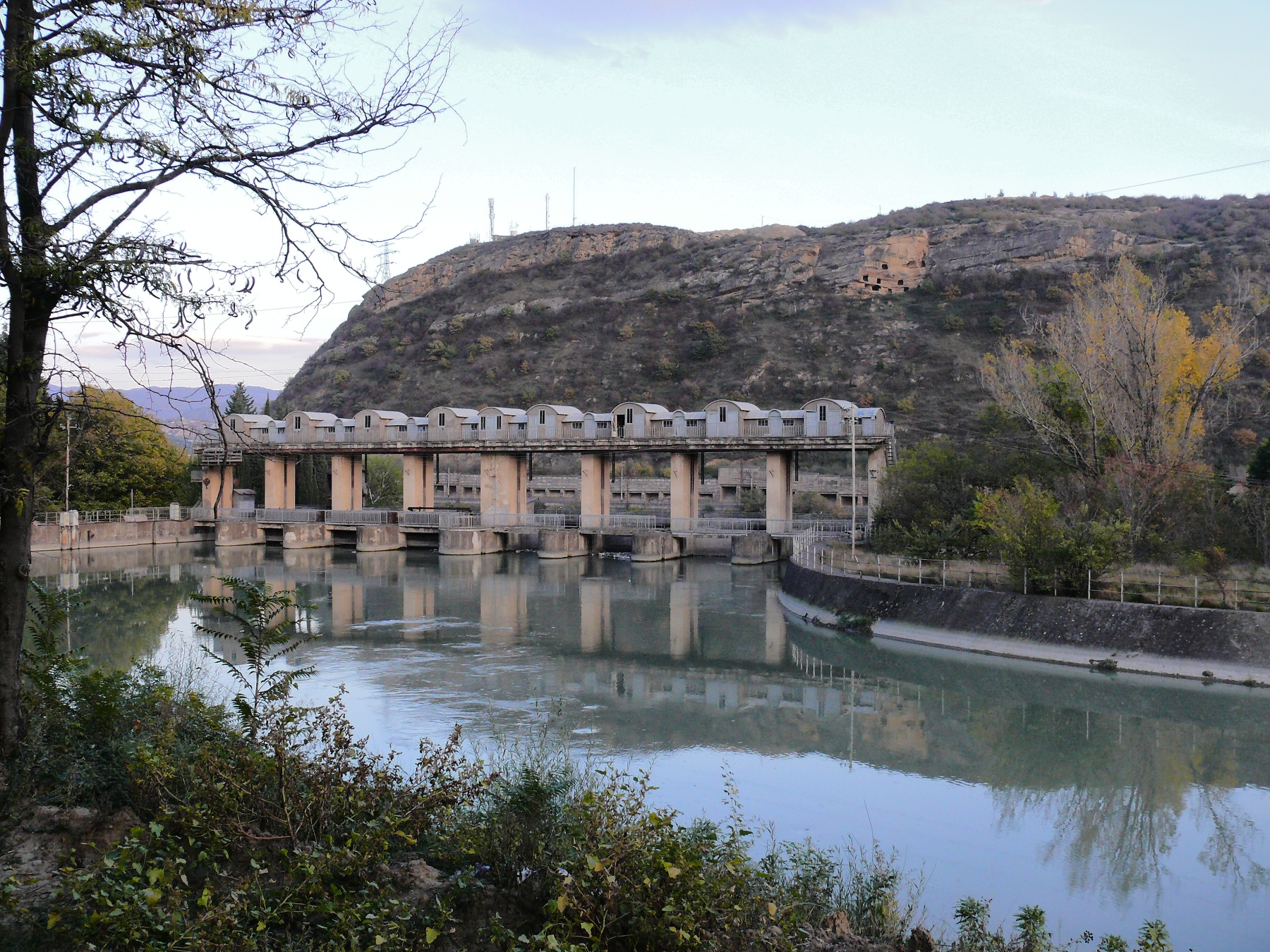 HPP Zahesi, Georgia 2014